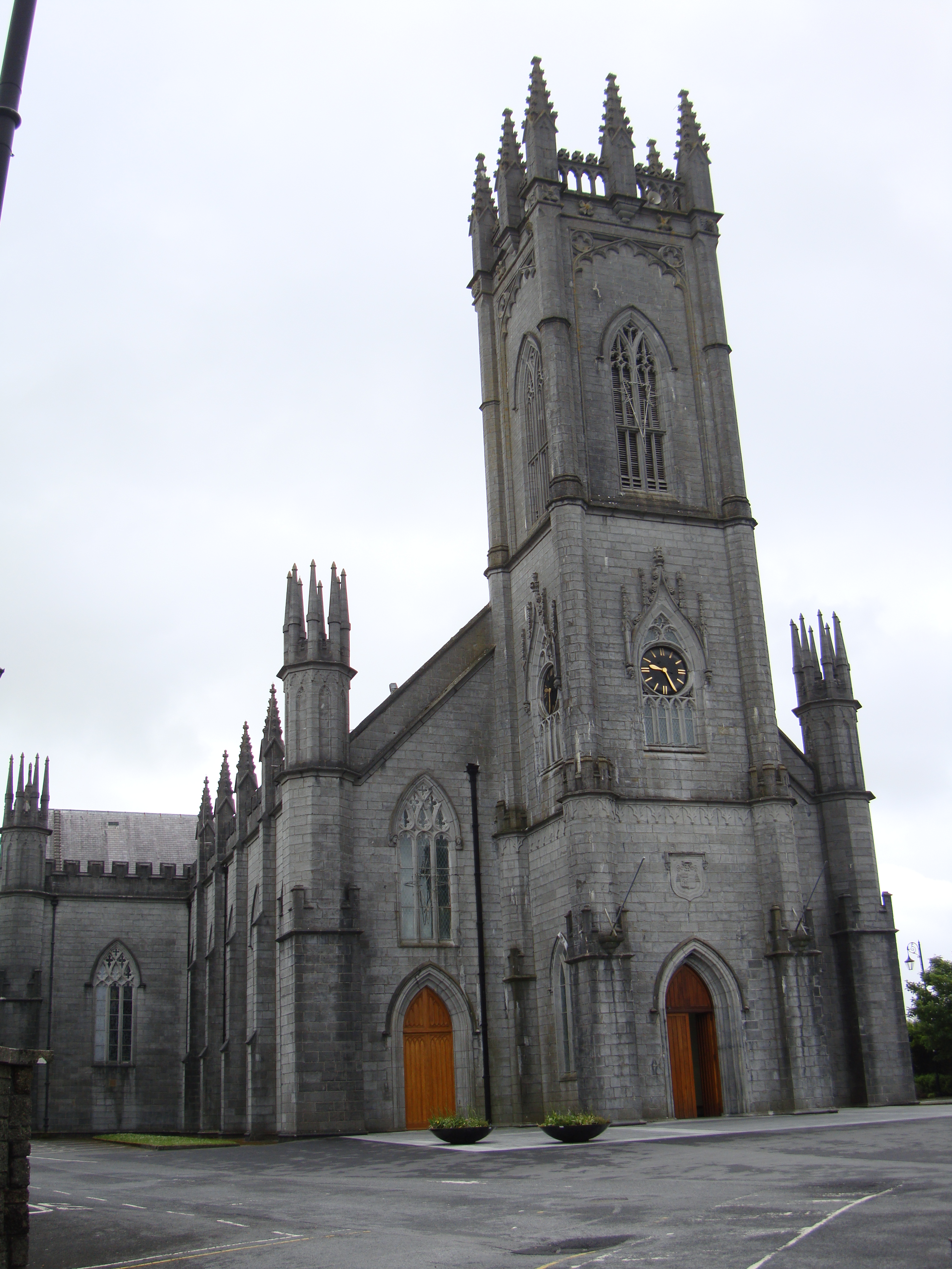 Photograph of Tuam R.C. Cathedral, Co. Galway, Ireland